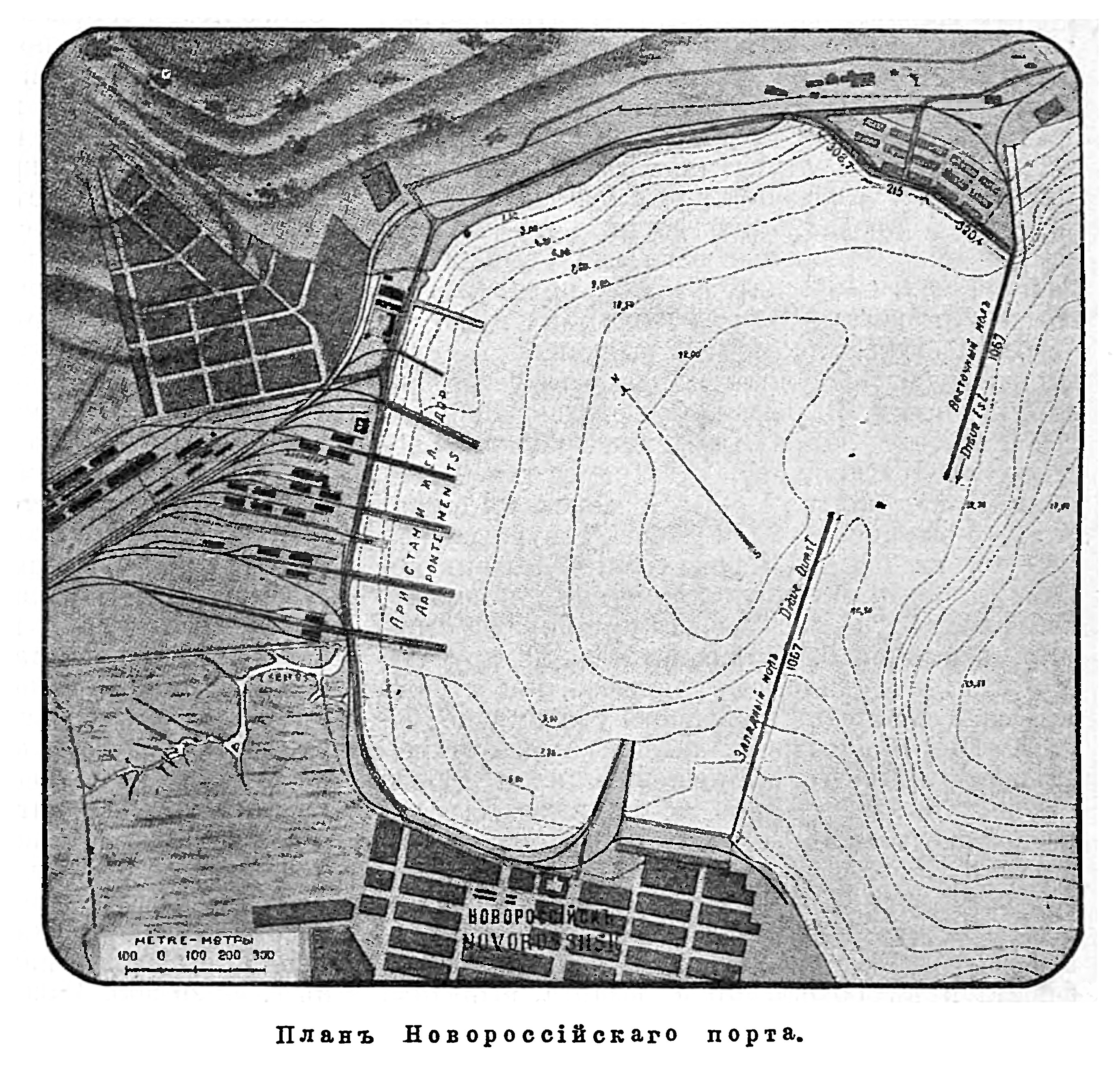 Map of Port of Novorossiysk (Novorossiysk naval base).